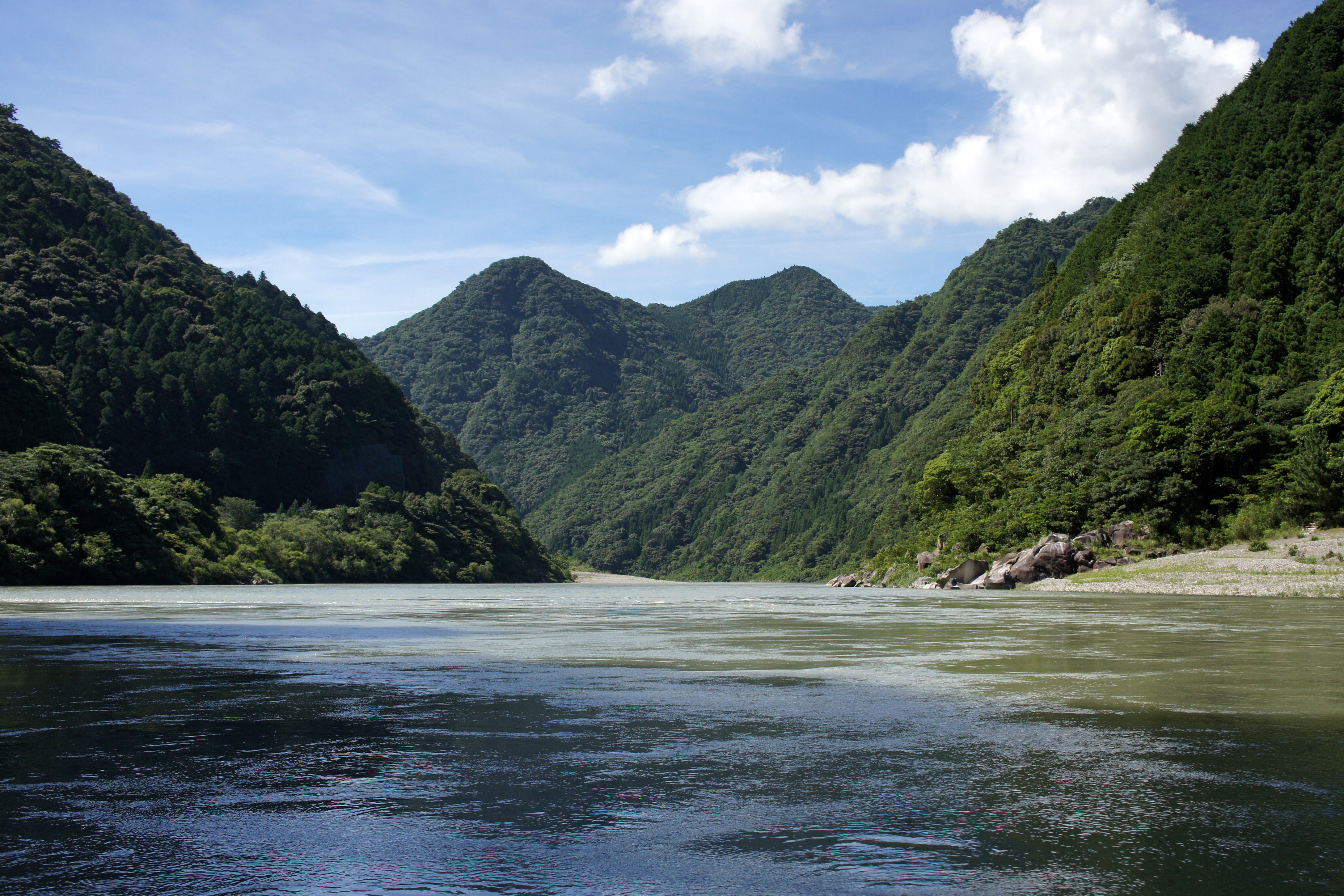 Kumano River in Shingū, Wakayama prefecture, Japan